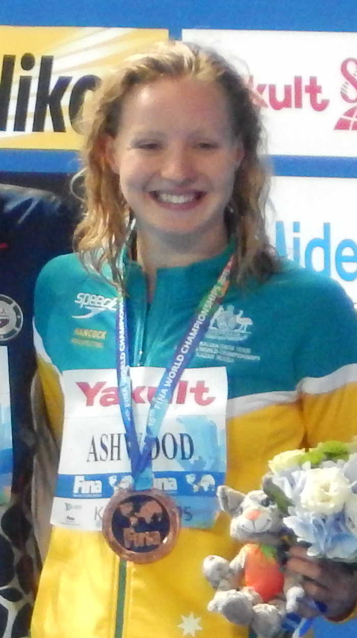 Medallists at the women's 400 metres freestyle in Kazan 2015